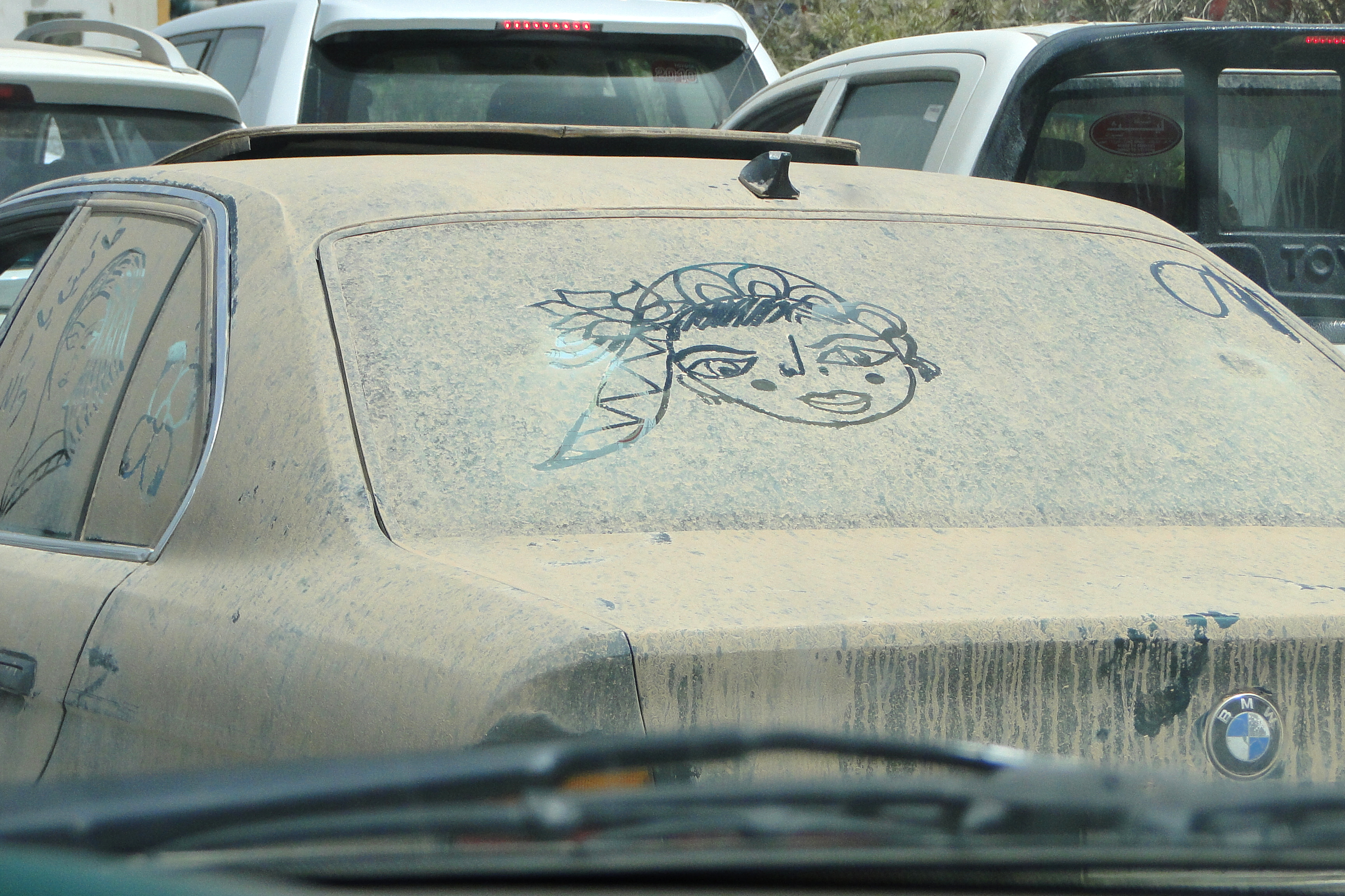 Car Artistry after a Dust Storm - Erbil - Iraq